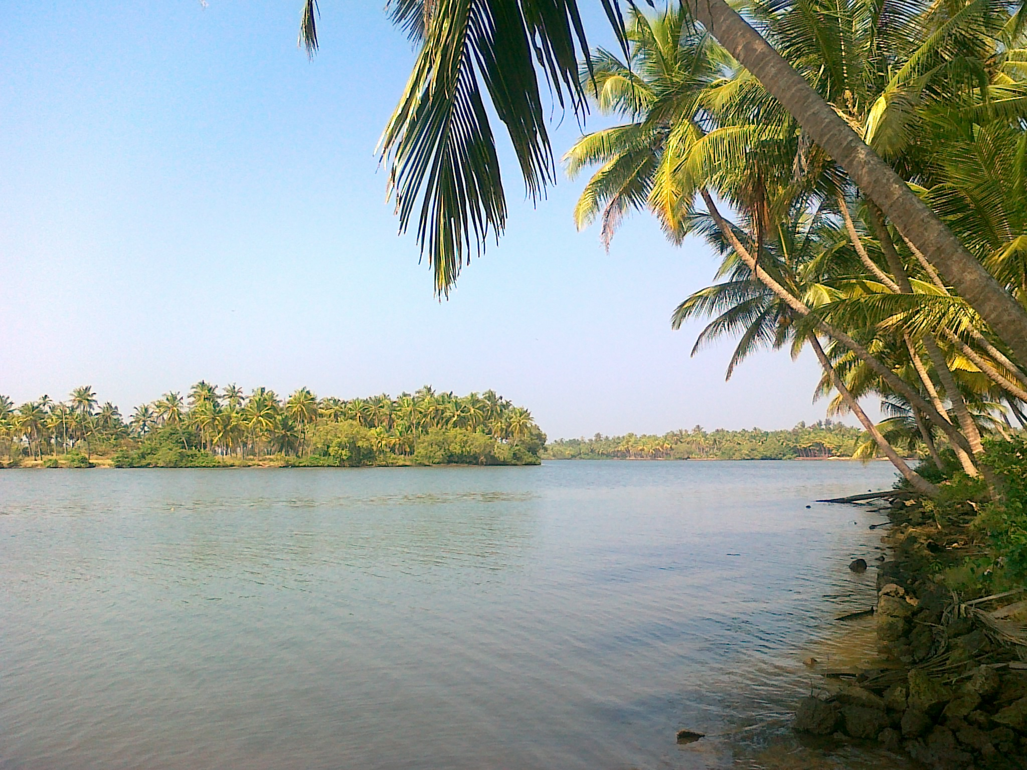 Scenic beauty of kavvayi island